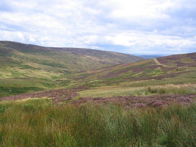 Croasdale Fell near White Hill in the Forest of Bowland. Looking south east down Croasdale, the Roman road can be seen on the fellside